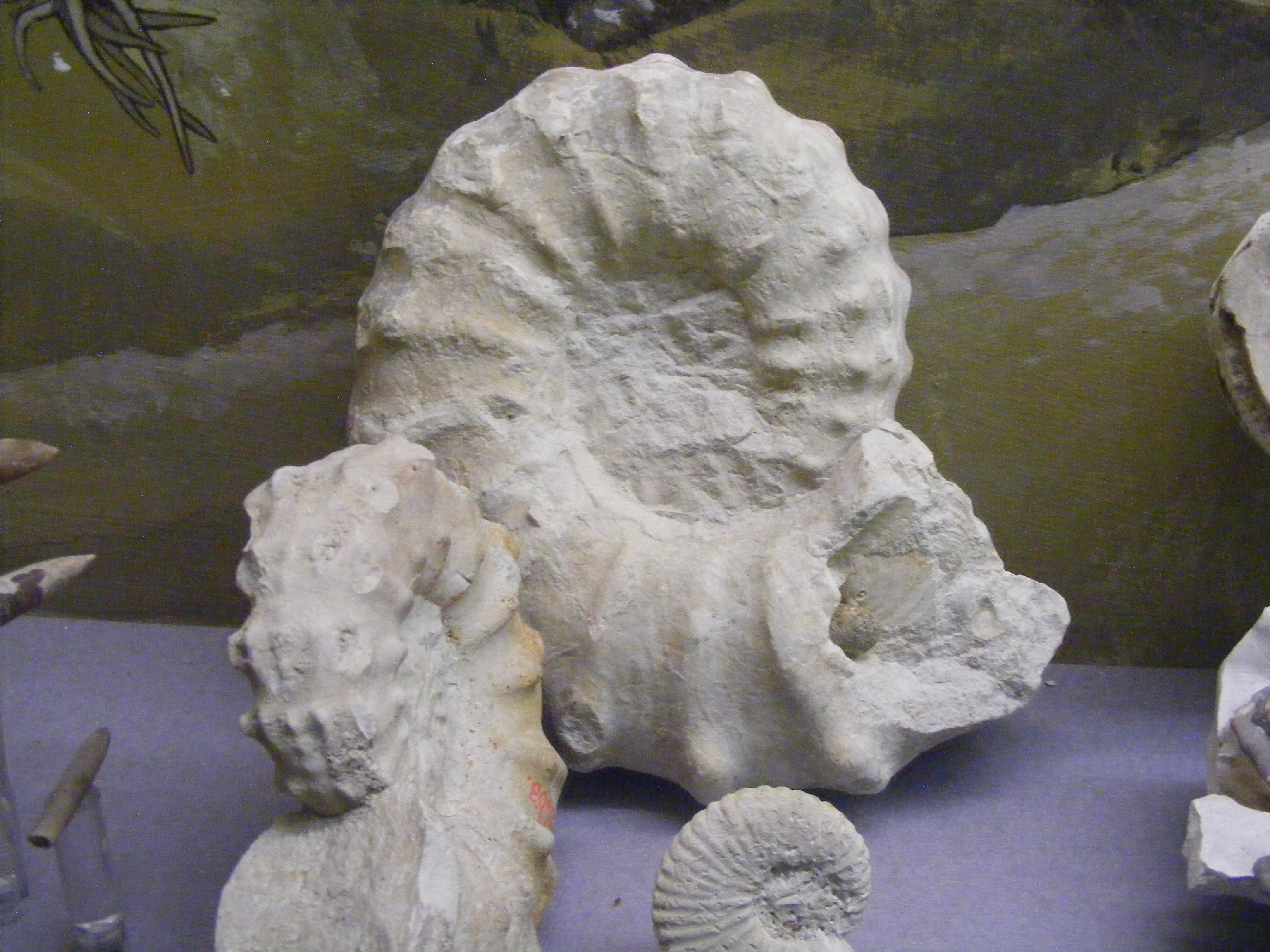 Acanthoceras rhotomagense fossil from Booth Museum of Natural History, Brighton